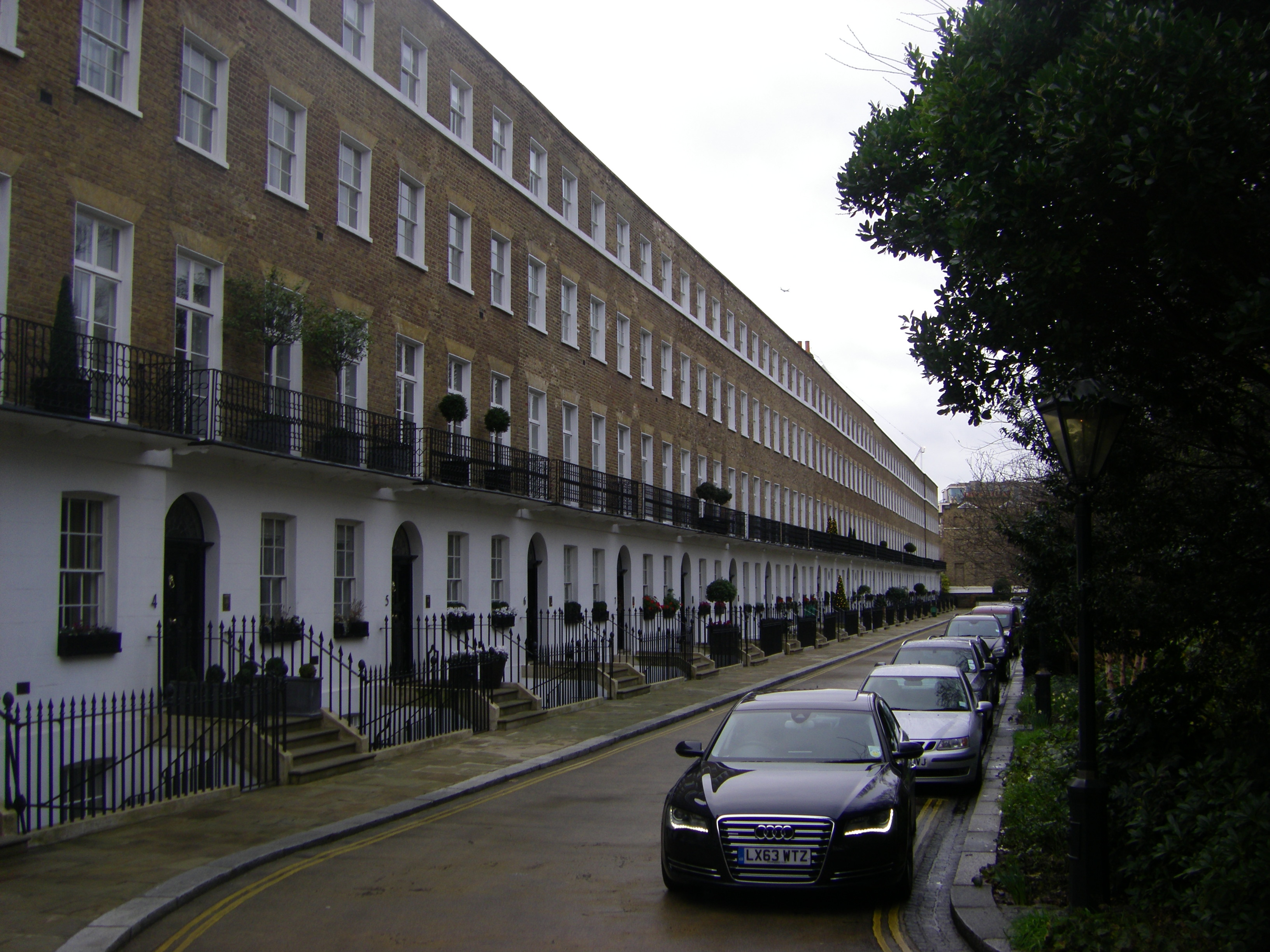 Small street in London where have lived different famous people.